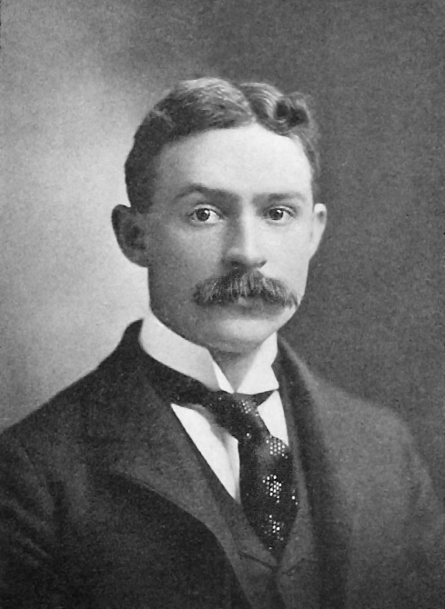 Photograph of Walter Bowers Pillsbury